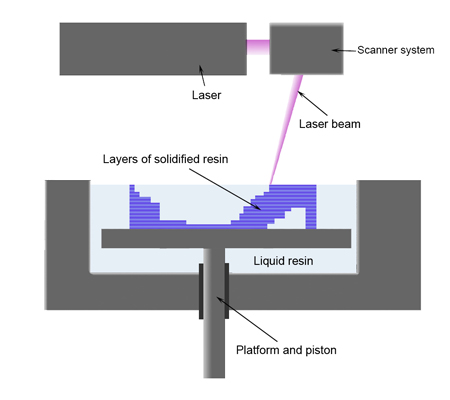 Stereolithograthy apparatus schematic